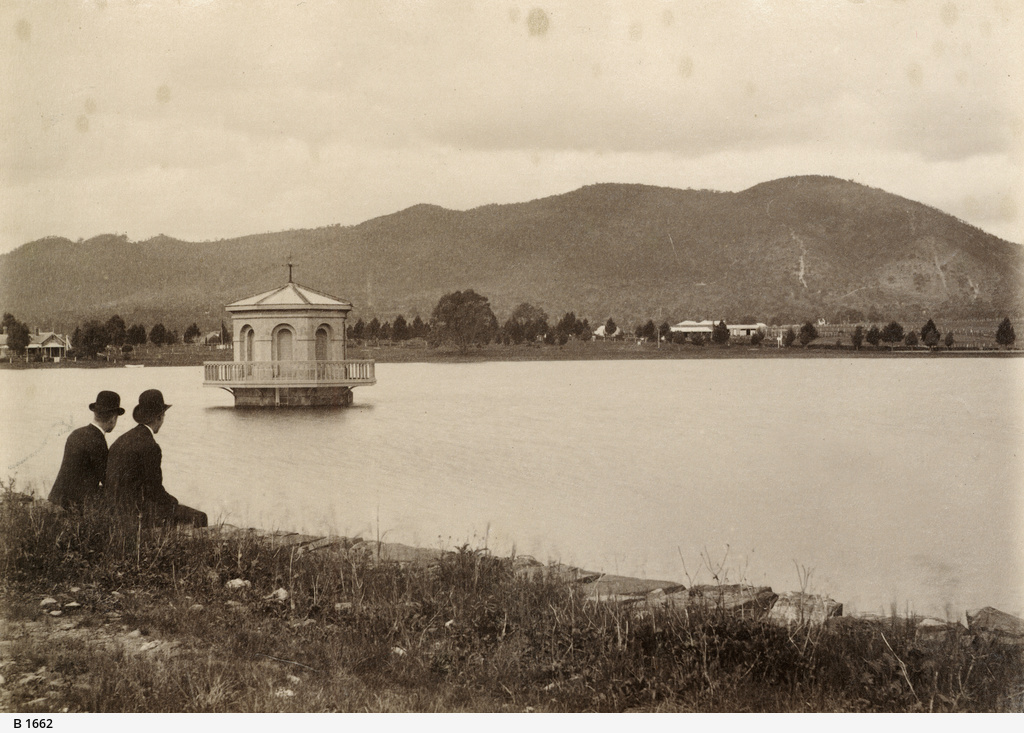 A view of Thorndon Park Reservoir, featuring the tower. Two men in bowler hats sit on the bank and look out across the water.